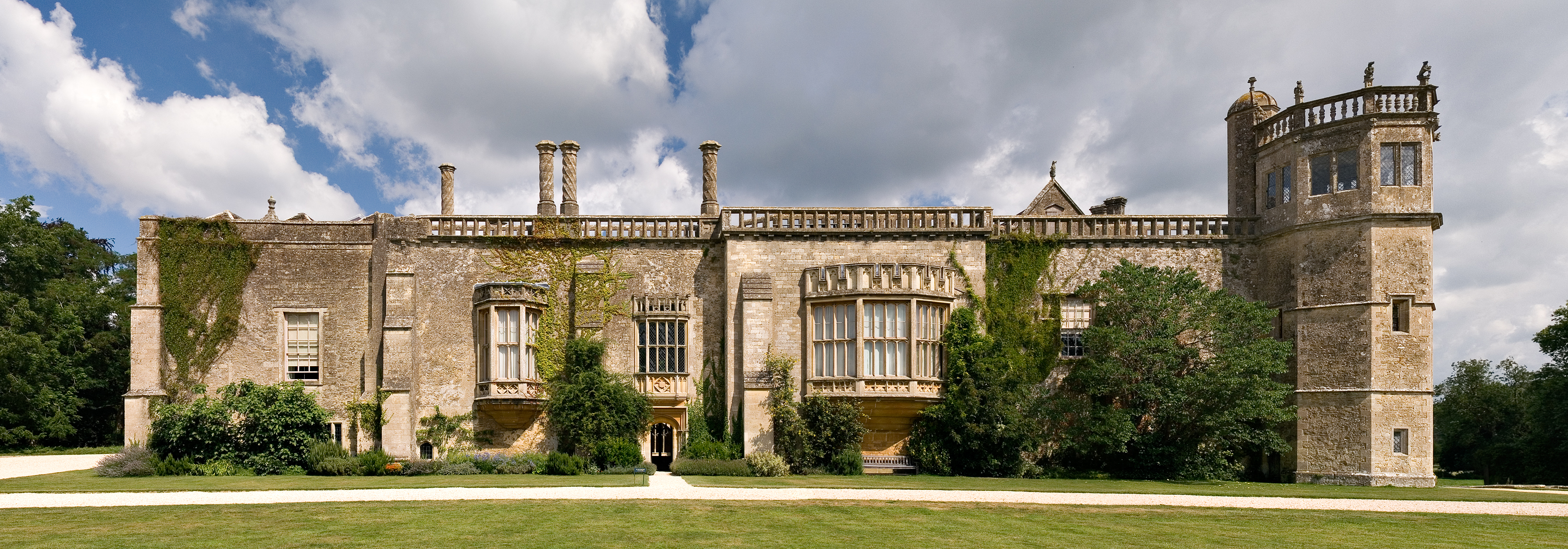 Panoramic view of Lacock Abbey